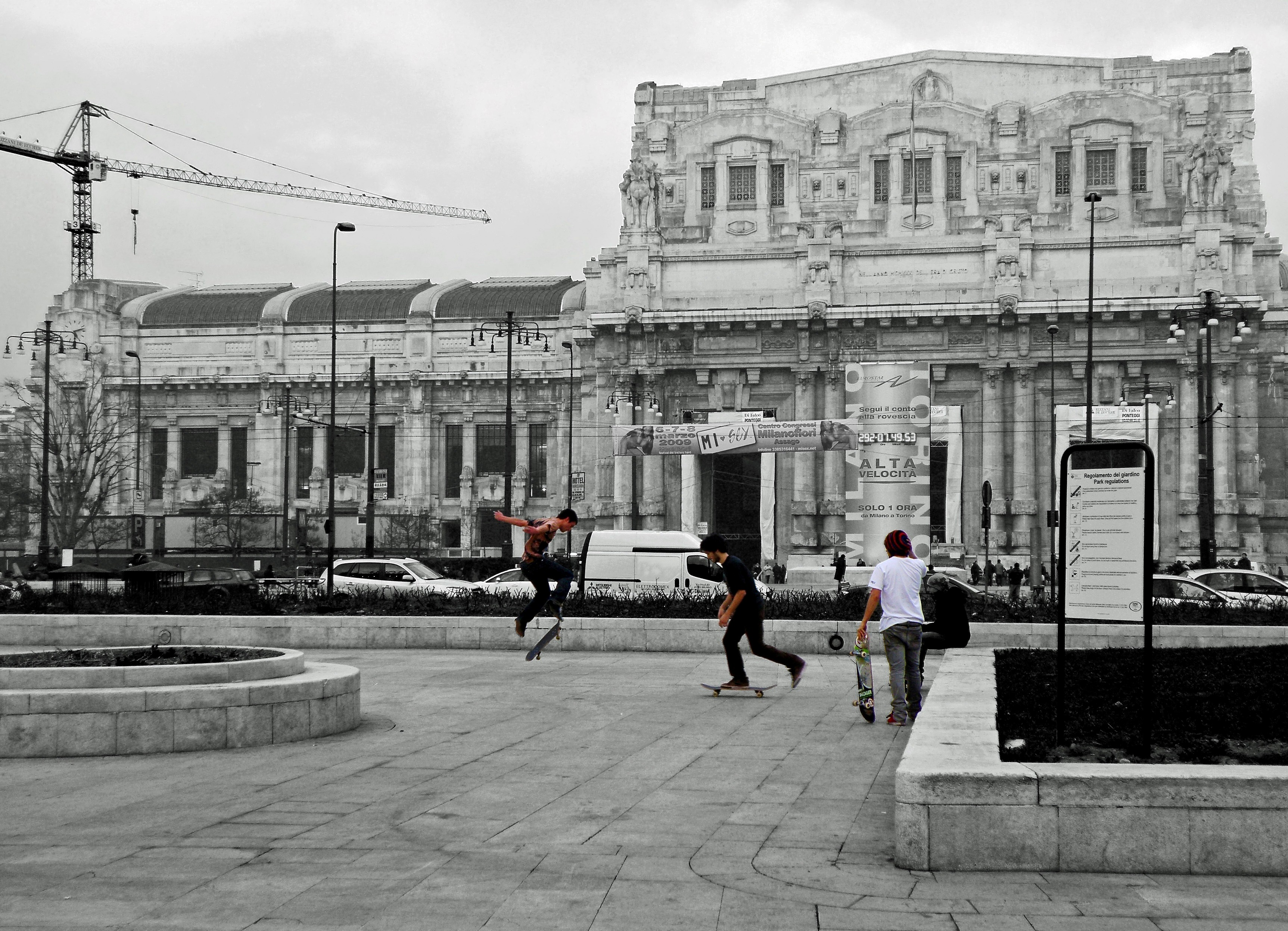 Three boys skateboarding in front of Stazione Centrale, Milan, Italy.